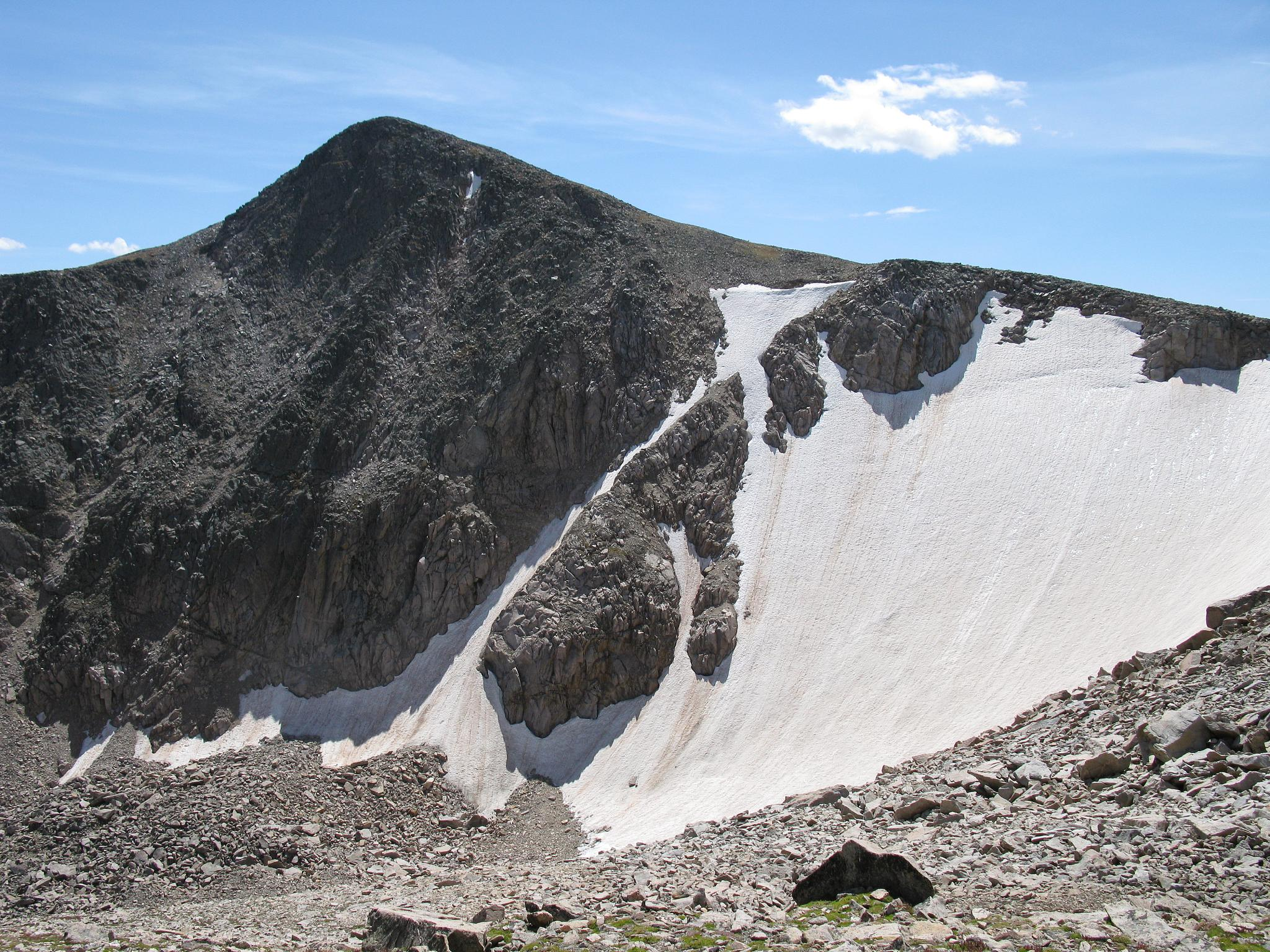 The continental divide runs right along this ridge line.